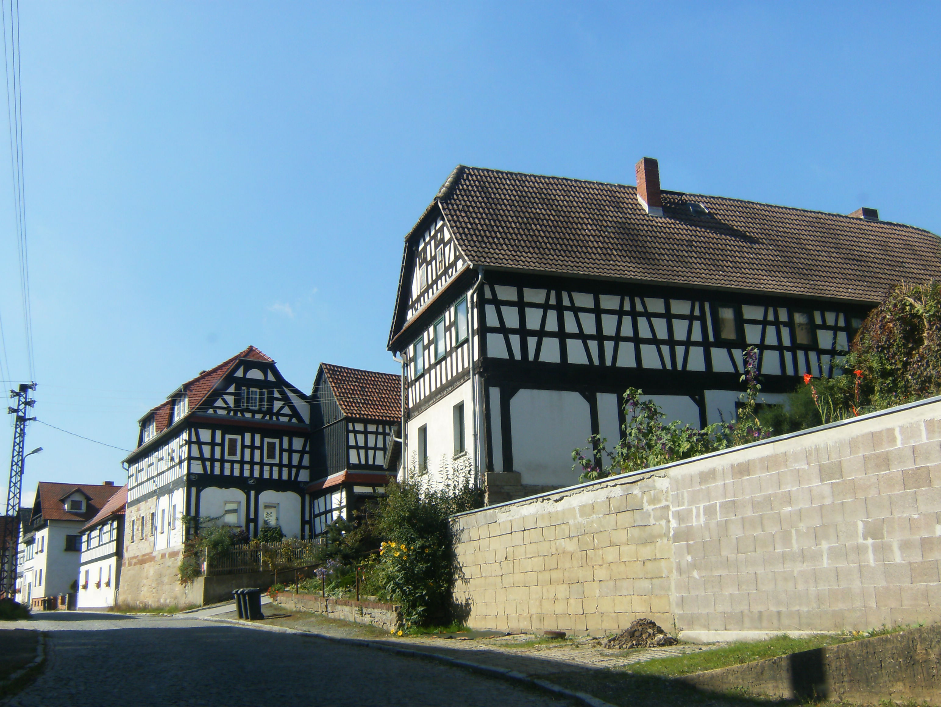 Reichenbach (Thuringia) / Saale-Holzland-Kreis; village view.